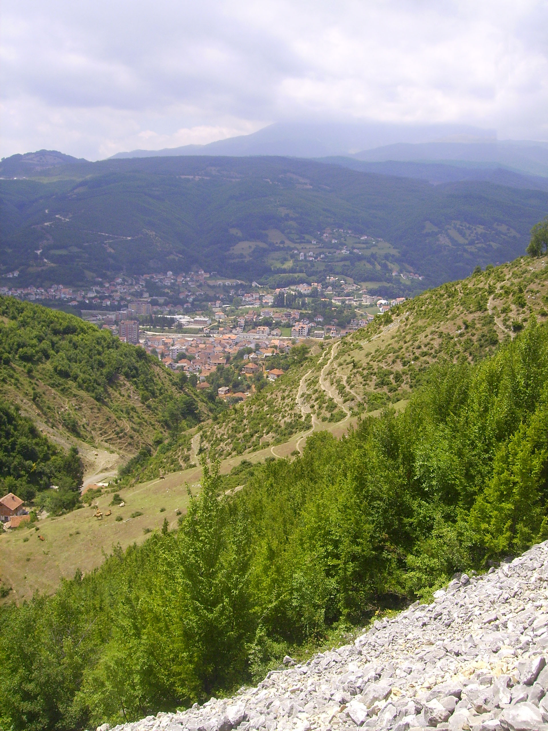 a photo of kaqanik from rakoci goerge